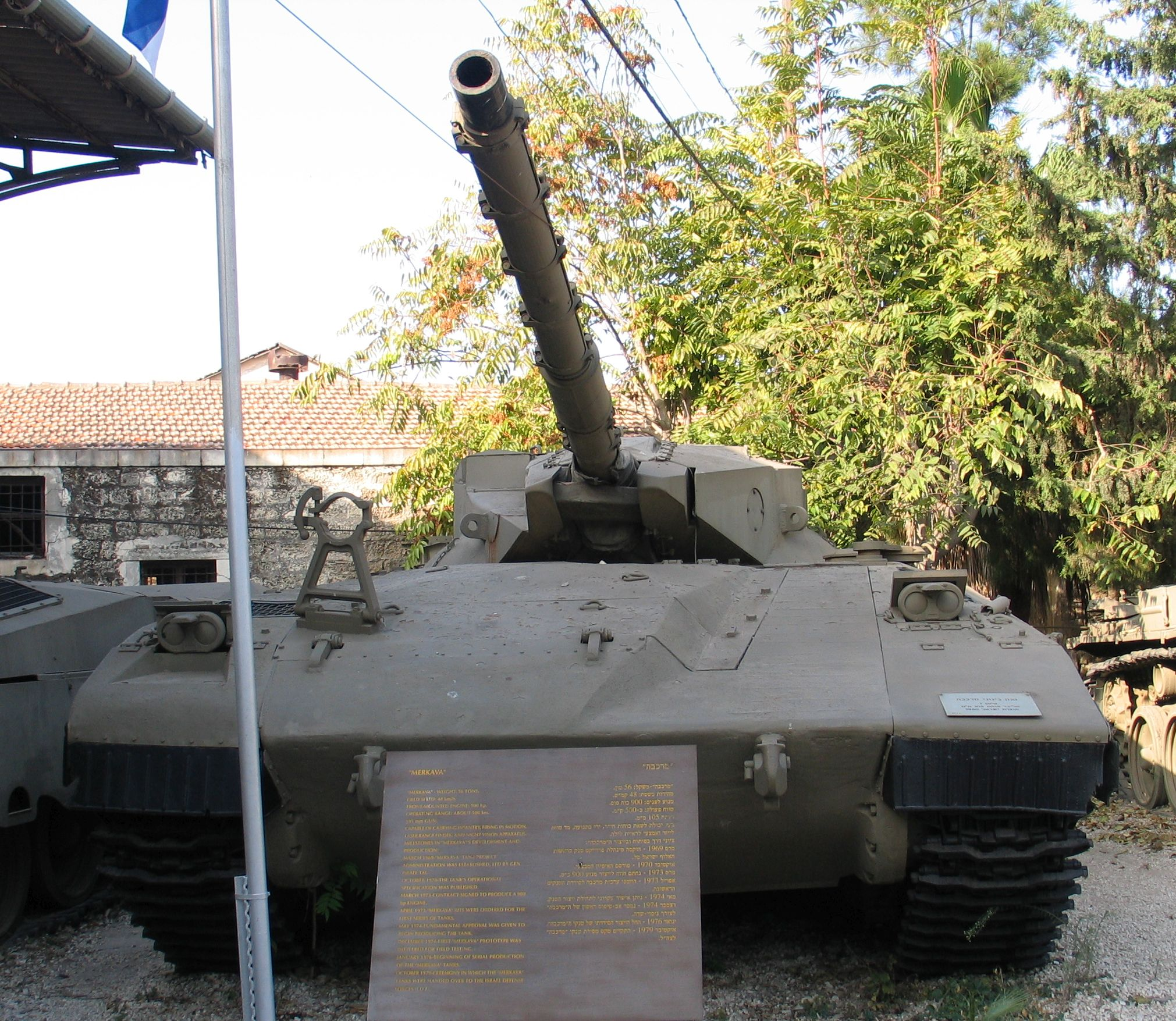 Description: Merkava I main battle tank in Batey ha-Osef museum, Tel Aviv, Israel. 2005. Source: Photo by me, User:Bukvoed.